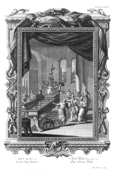 the bed of Og as described in Deuteronomy 3:11